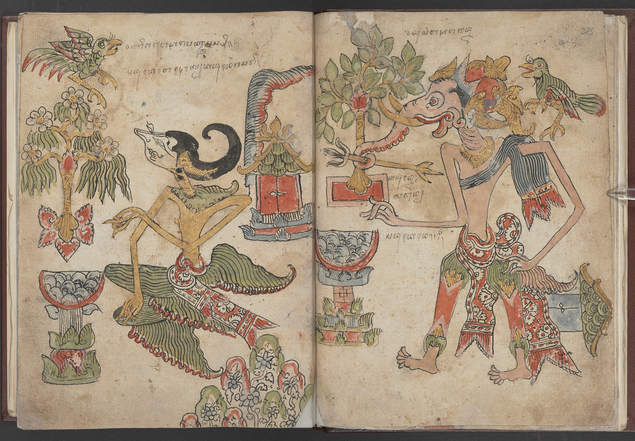 Early wuku illustrations, found at the end of a manuscript volume containing Babad ing Sangkala, dated 1738. British Library, MSS Jav 36B, ff. 374v-375r